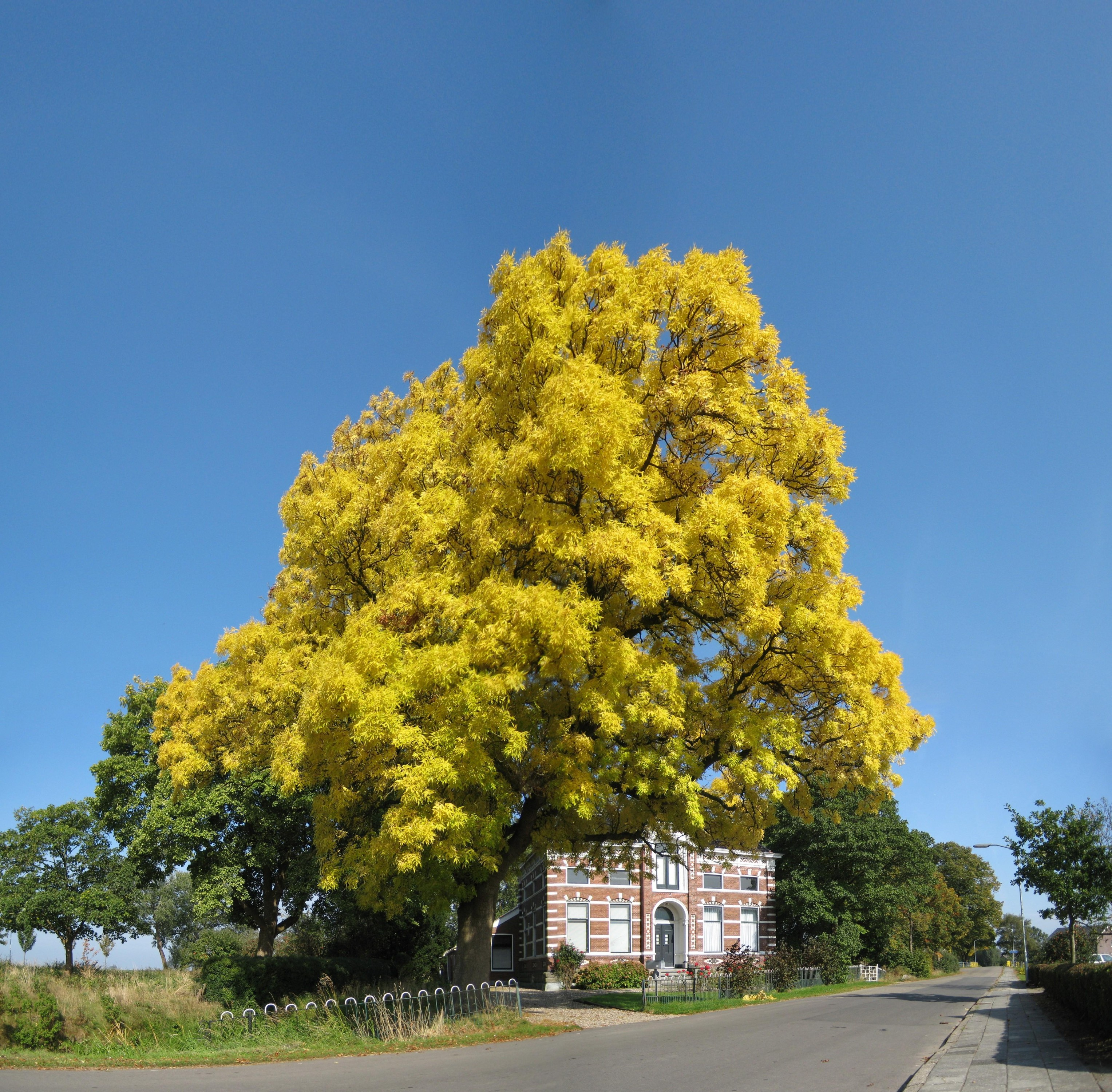 Street view in Ganzedijk, a small village in the Dutch province of Groningen.